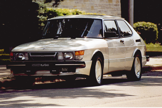 1984 Saab 900 SPG Prototype VIN 060